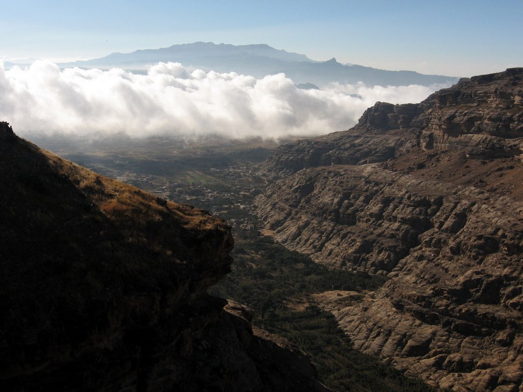 The wadi under the village of Kawkaban